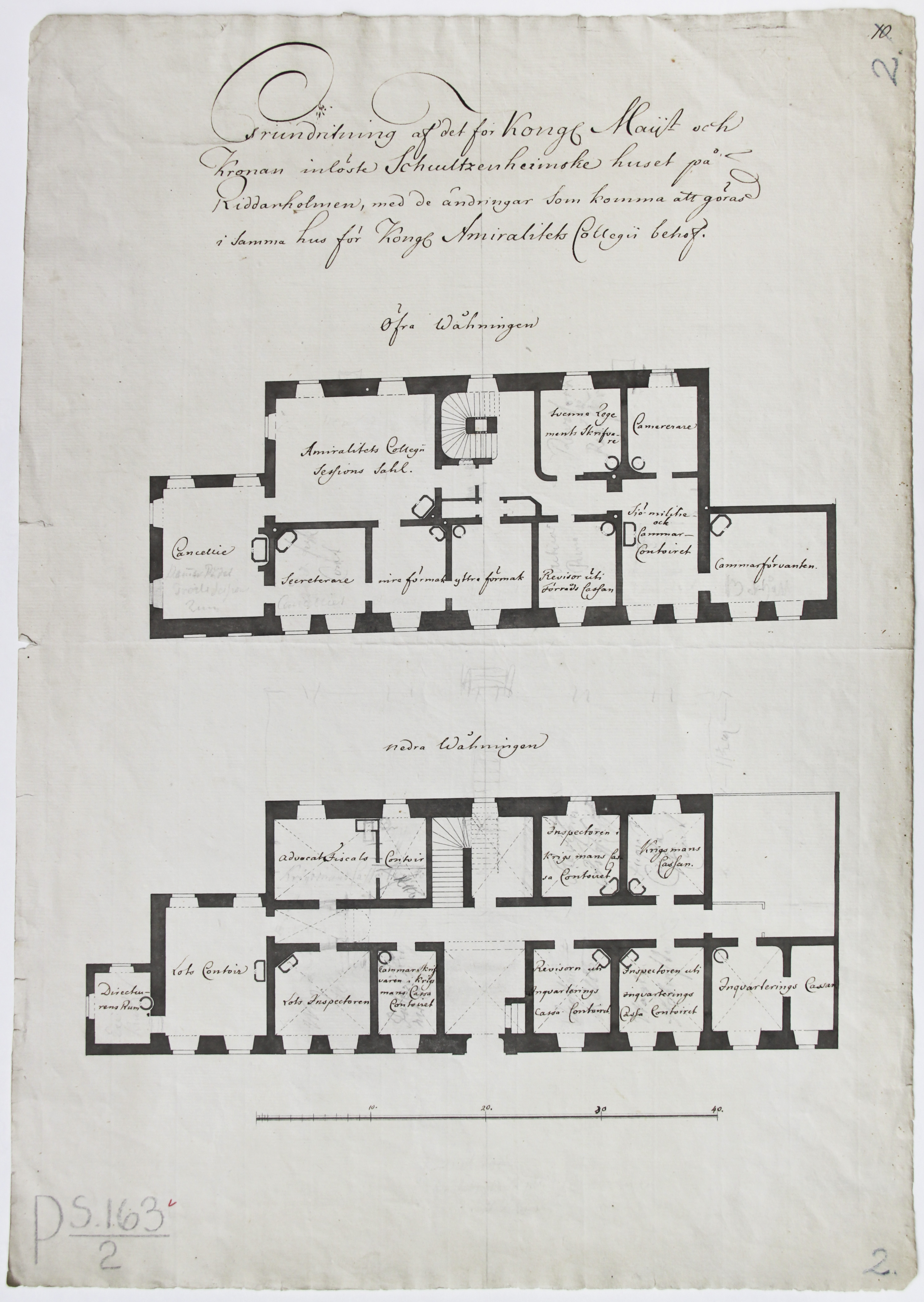 Drawing over Sparre palace, riddarholmen, Stockholm.